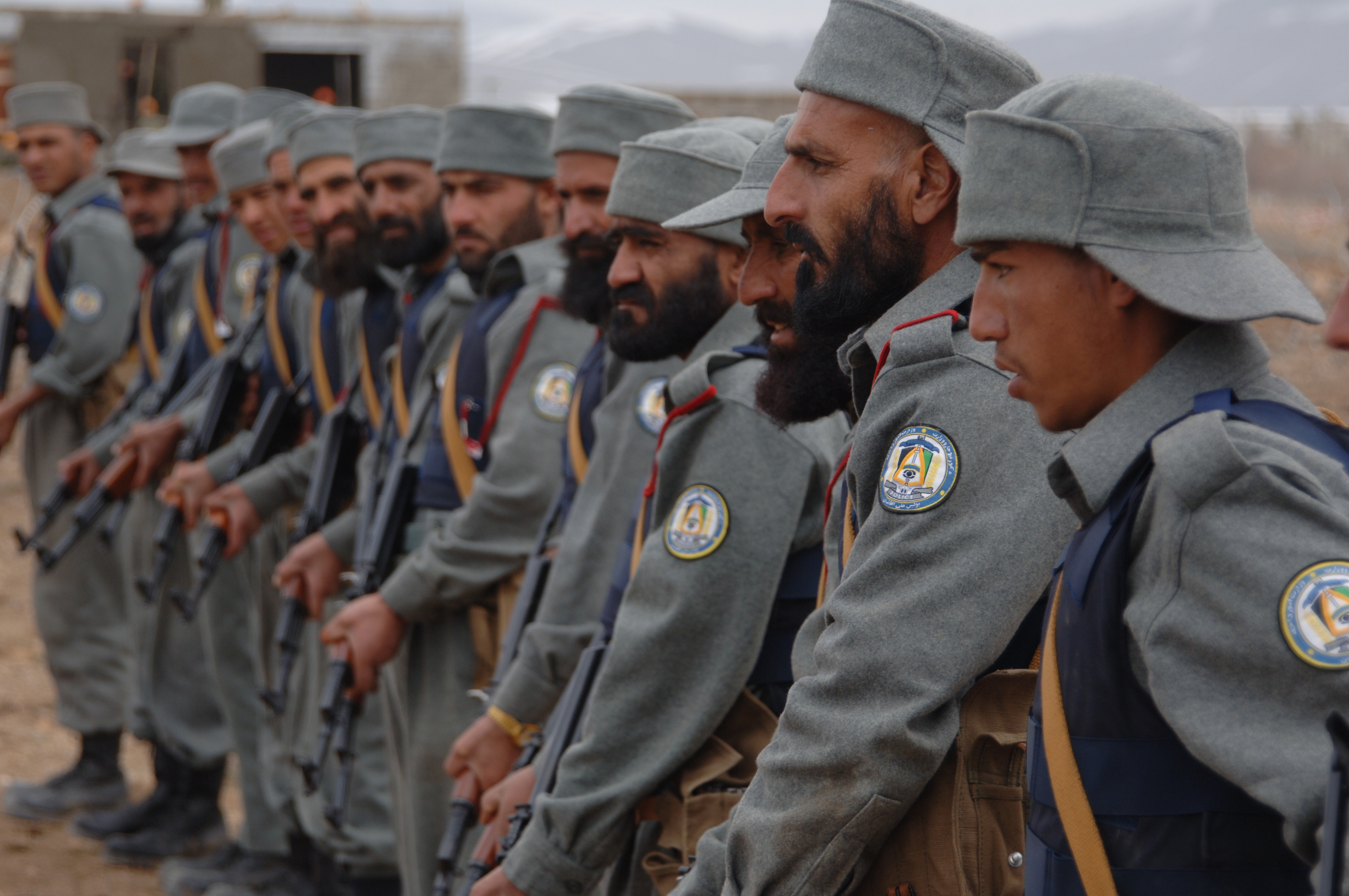 Afghan National Police (ANP) recruits listen to instructors before firing their AK-47 rifles at a range near the regional training center for the ANP near Gardez, Afghanistan, March 17, 2007. (U.S. Army photo by Staff Sgt. Michael Bracken)